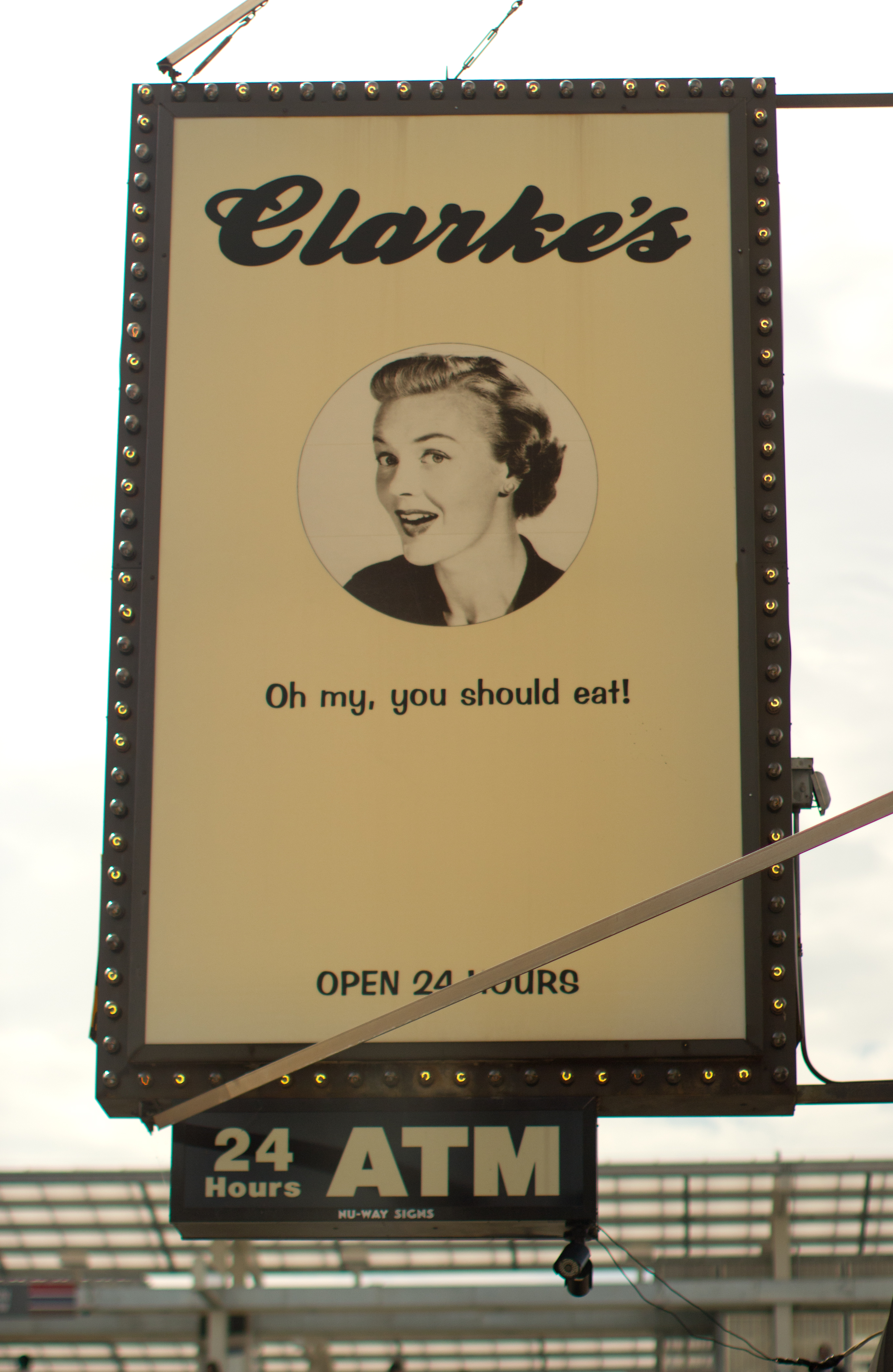 A Restaurant